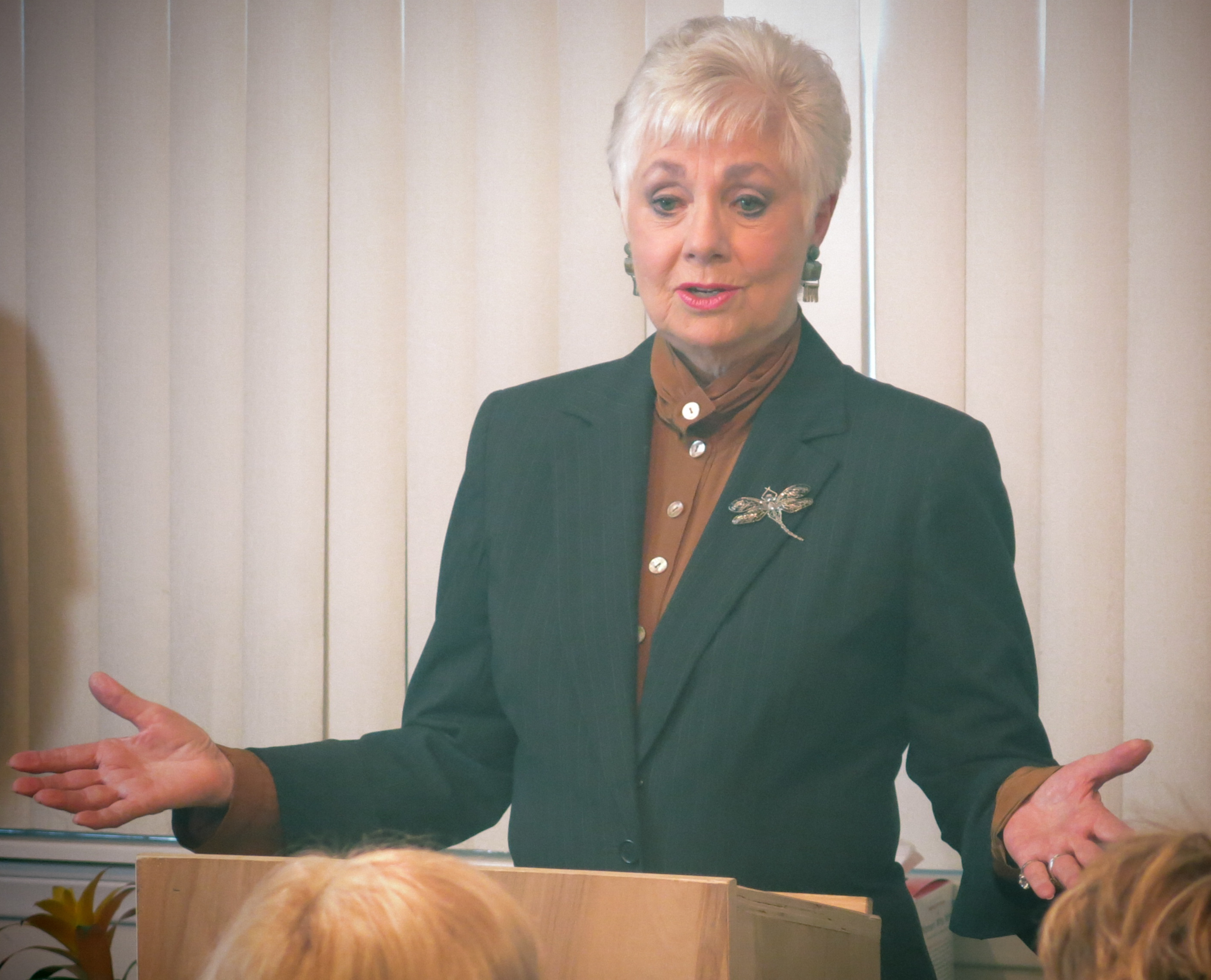 Shirley Jones in 2013